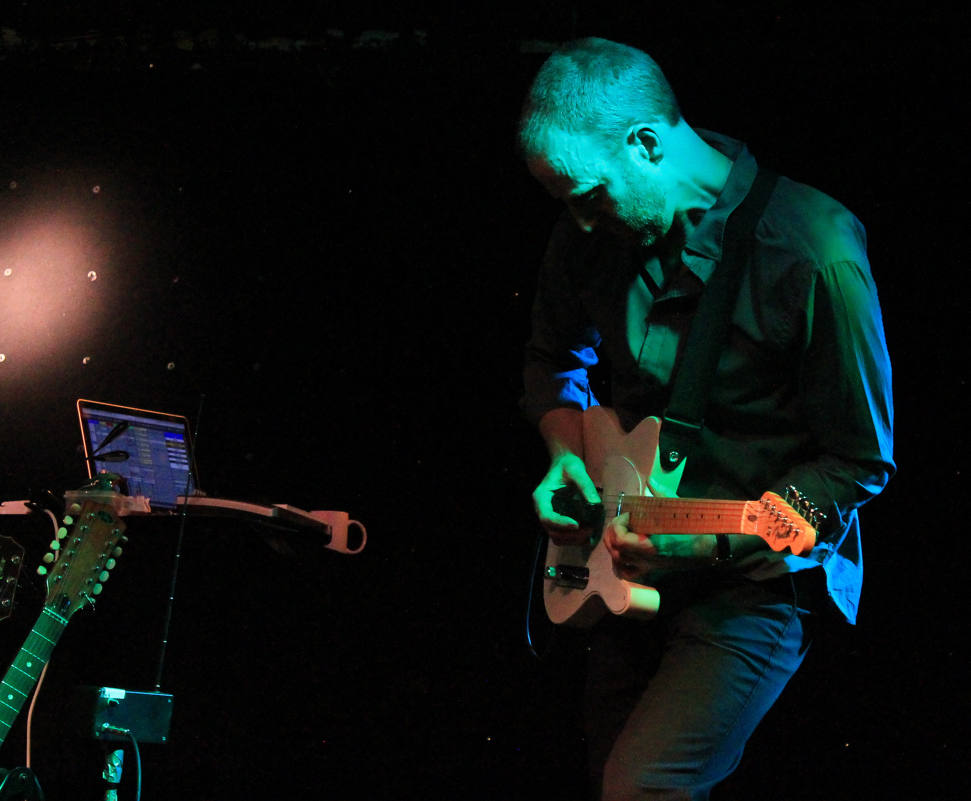 Philip Clemo live at The Con Club, Lewes, 2017